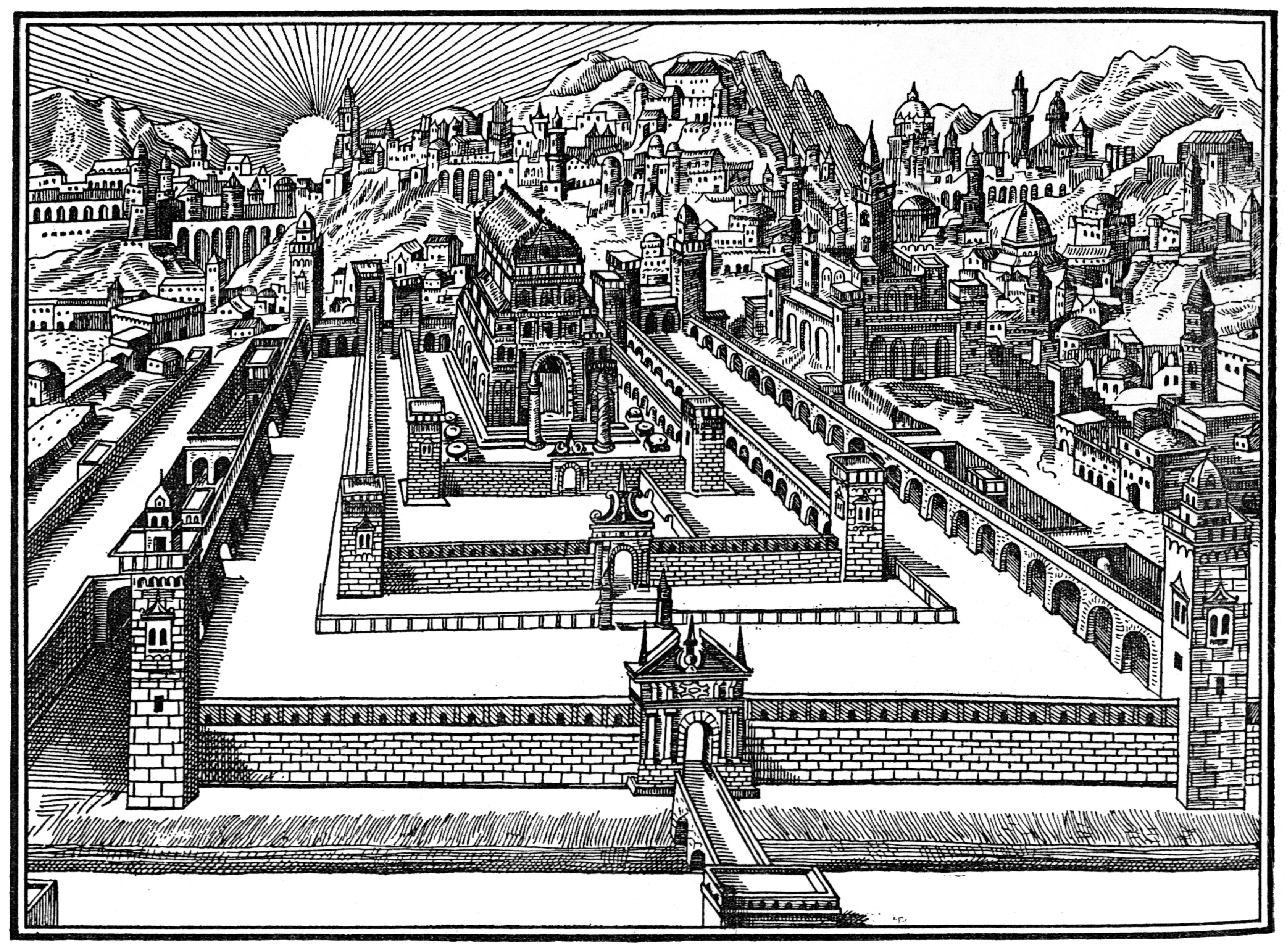 Temple in Jerusalem from a Passover Haggada, Amsterdam 1695